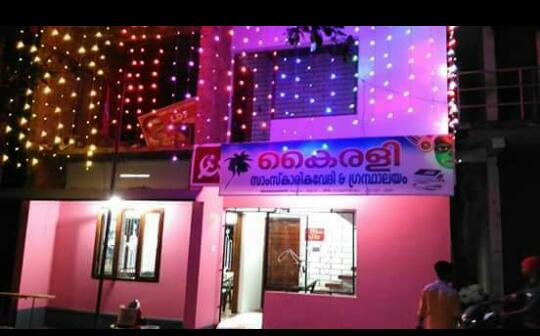 Kairali